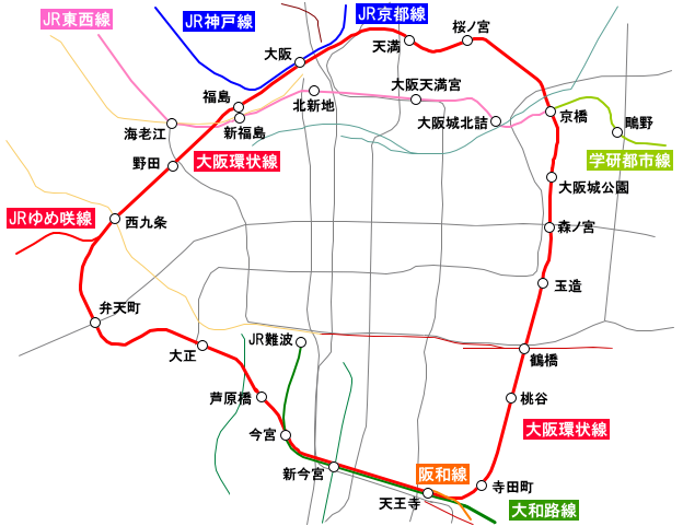 Osaka Loop Line and its surrounding railway network